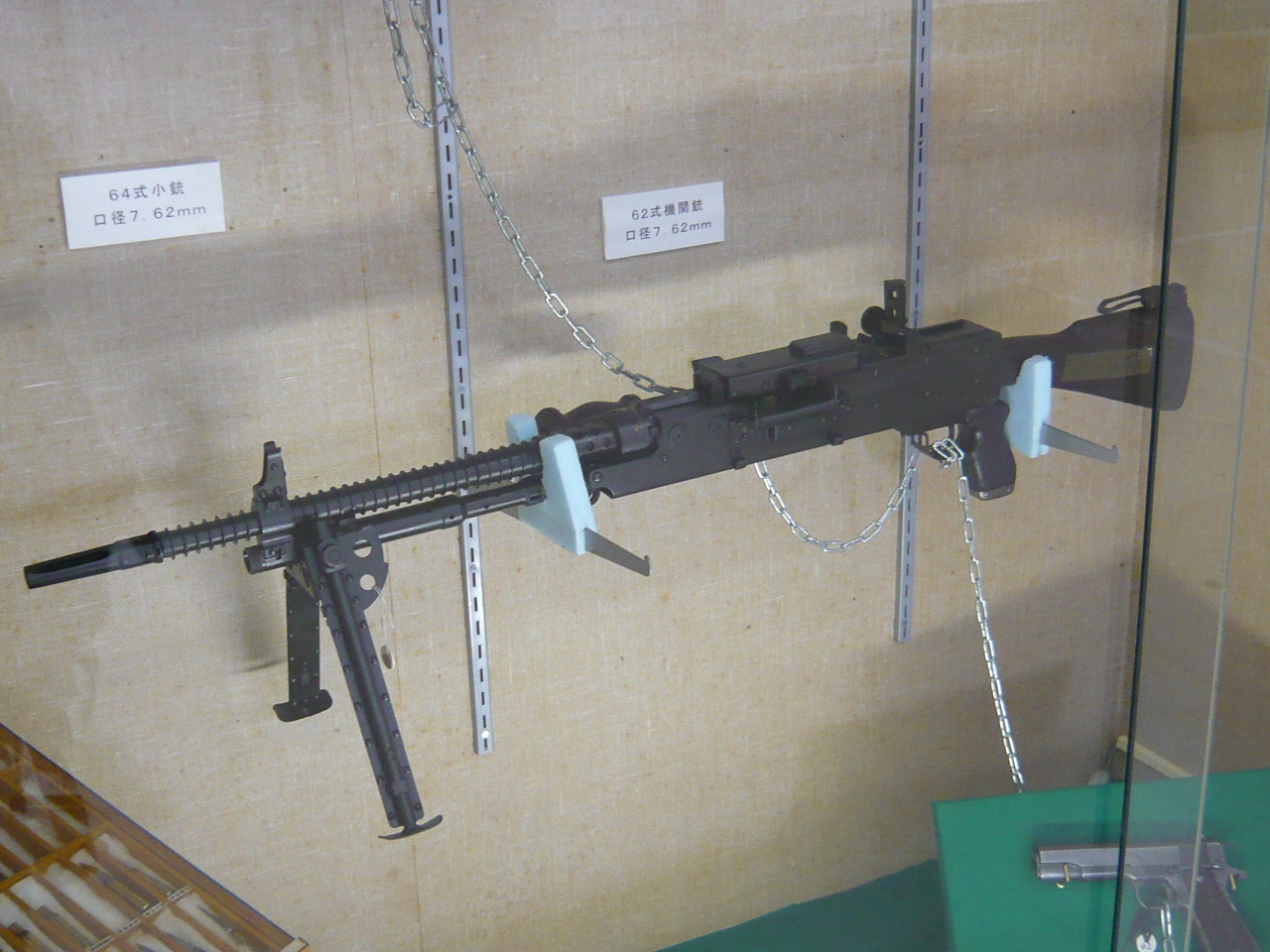 The Sumitomo NTK-62 (62式7.62mm機関銃 Rokuni-shiki Nana-ten-rokuni-miri Kikanjū?) is the standard issue GPMG of the Japan Self-Defense Forces. Known as the Type 62 GPMG.